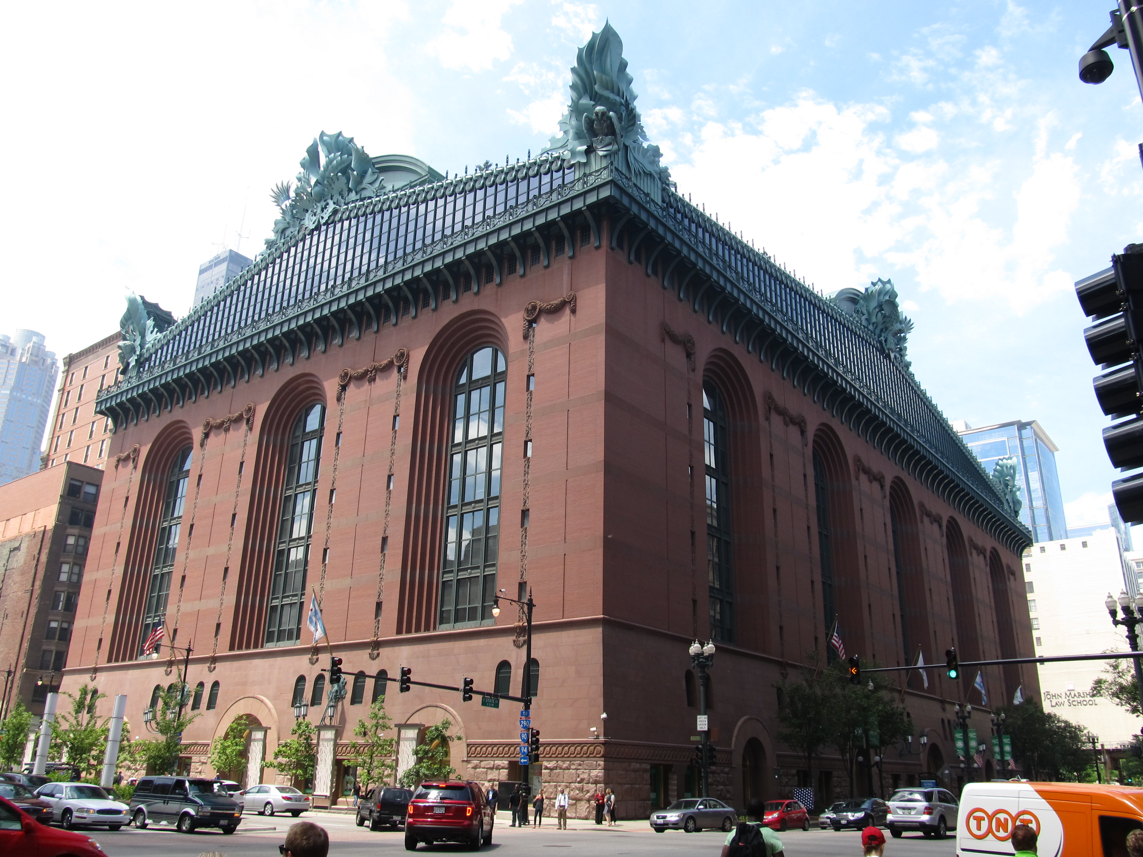 The Harold Washington Library Center is the central library for the Chicago Public Library System. It is named for former Mayor Harold Washington. It is located just south of the Loop 'L', at 400 S. State Street in Chicago, in the U.S. state of Illinois. It is a full-service library and ADA compliant. As with all libraries in the Chicago Public Library system, it has free wifi internet service. At approximately 756,640 square feet (70,294 m2), it the largest public library building in the world. The building was designed by the architectural firm of Hammond, Beeby and Babka, now known as Hammond Beeby Rupert Ainge, Inc., winners of a design competition held in 1987 to replace the old central library, which had been housed in the present Chicago Cultural Center.